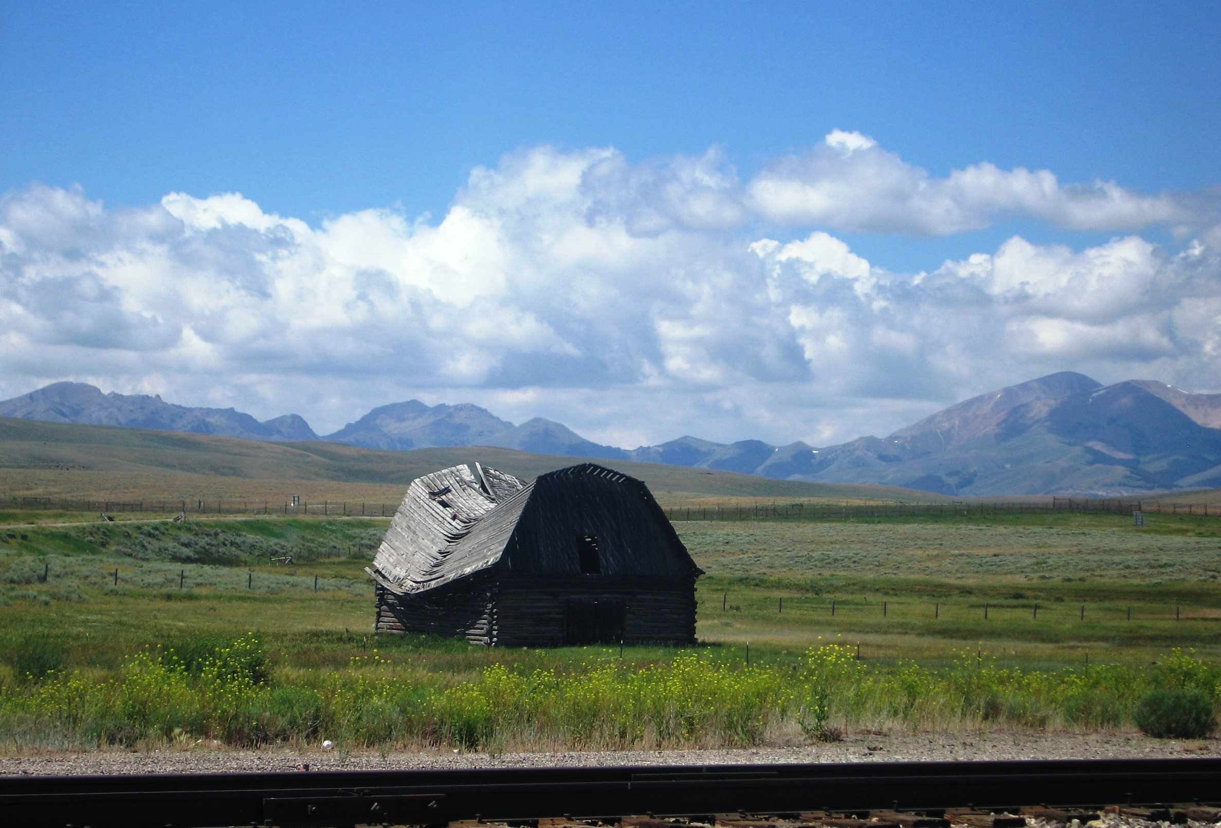 Stage Coach Barn for travel north to Dillion and east to Yellowstone